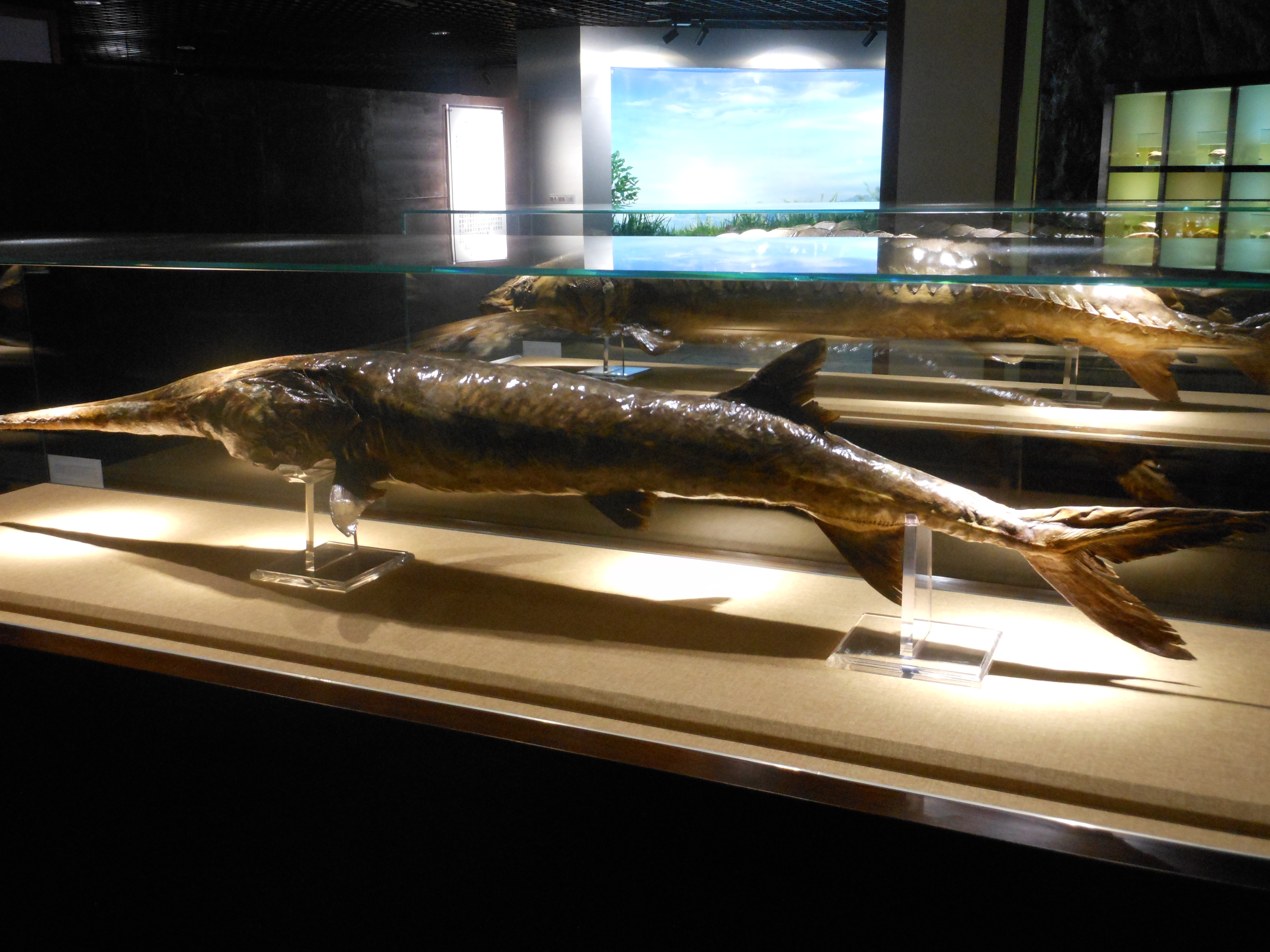 This is a specimen of a mature Psephurus gladius (Chinese Paddlefish), which is exhibited in the Museum of Hydrobiological Sciences, Wuhan Institute of Hydrobiology of Chinese Academy of Sciences. Detailed information of the specimen is little-known. A paper published in December 2019 suggested the Chinese Paddlefish was thought to be extinct sometime between 2005 and 2010 based on 210 sightings of Chinese paddlefish during the period 1981-2003, as well as the result that no individual of Chinese Paddlefish was spotted during the latest survey conducted on the Yangtze River during 2017-2018. Thus, it recommended the IUCN to reevaluate the species as EX "extinct" according to its criteria. It has caused widespread discussion online, and some news agencies falsely reported that it was formally declared "extinct" by experts.